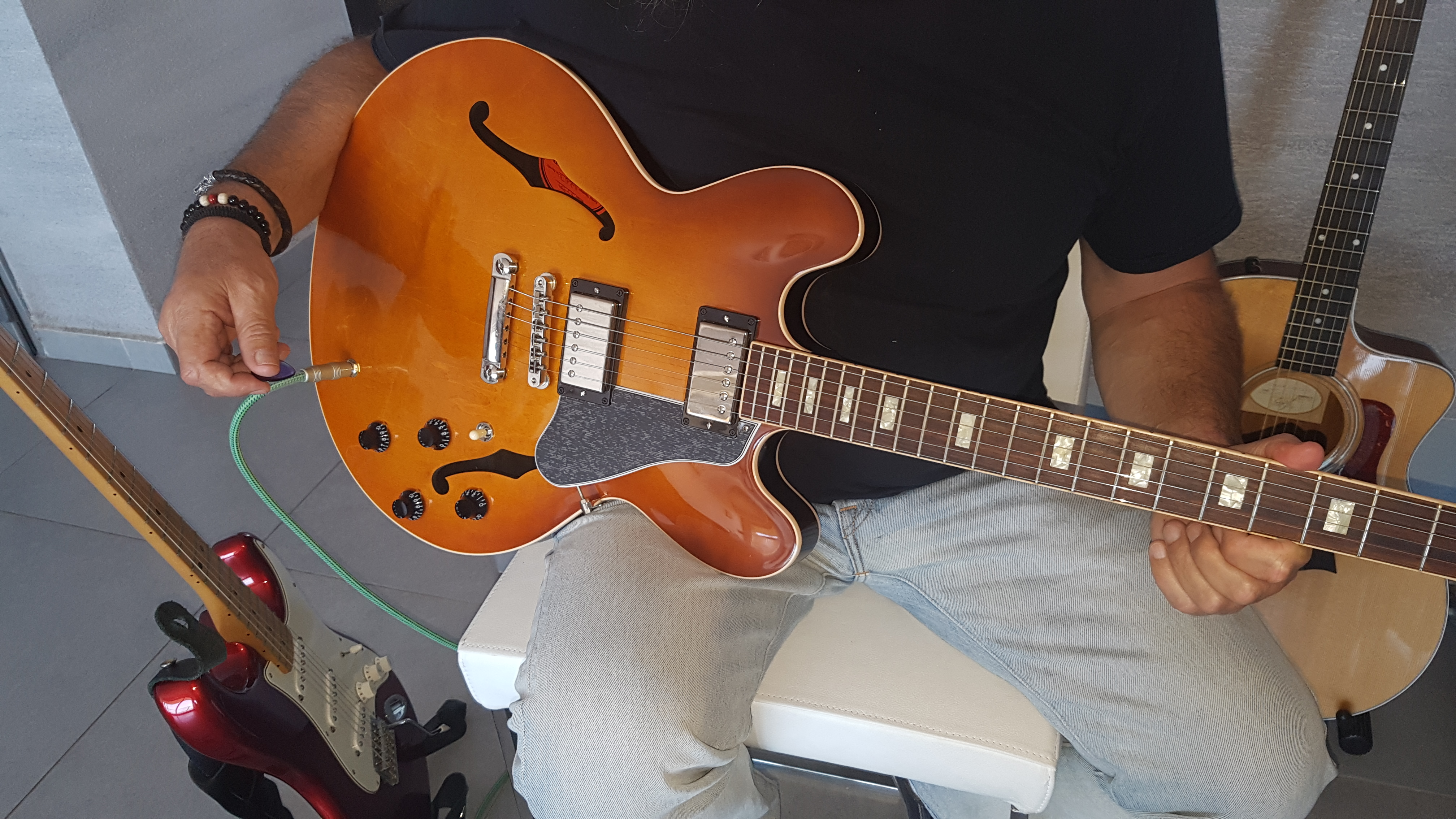 Gibson ES-335